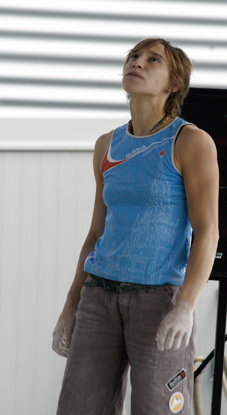 Yulia Abramchuk during qualifications at the IFSC Boulder Worldcup Vienna 2010.